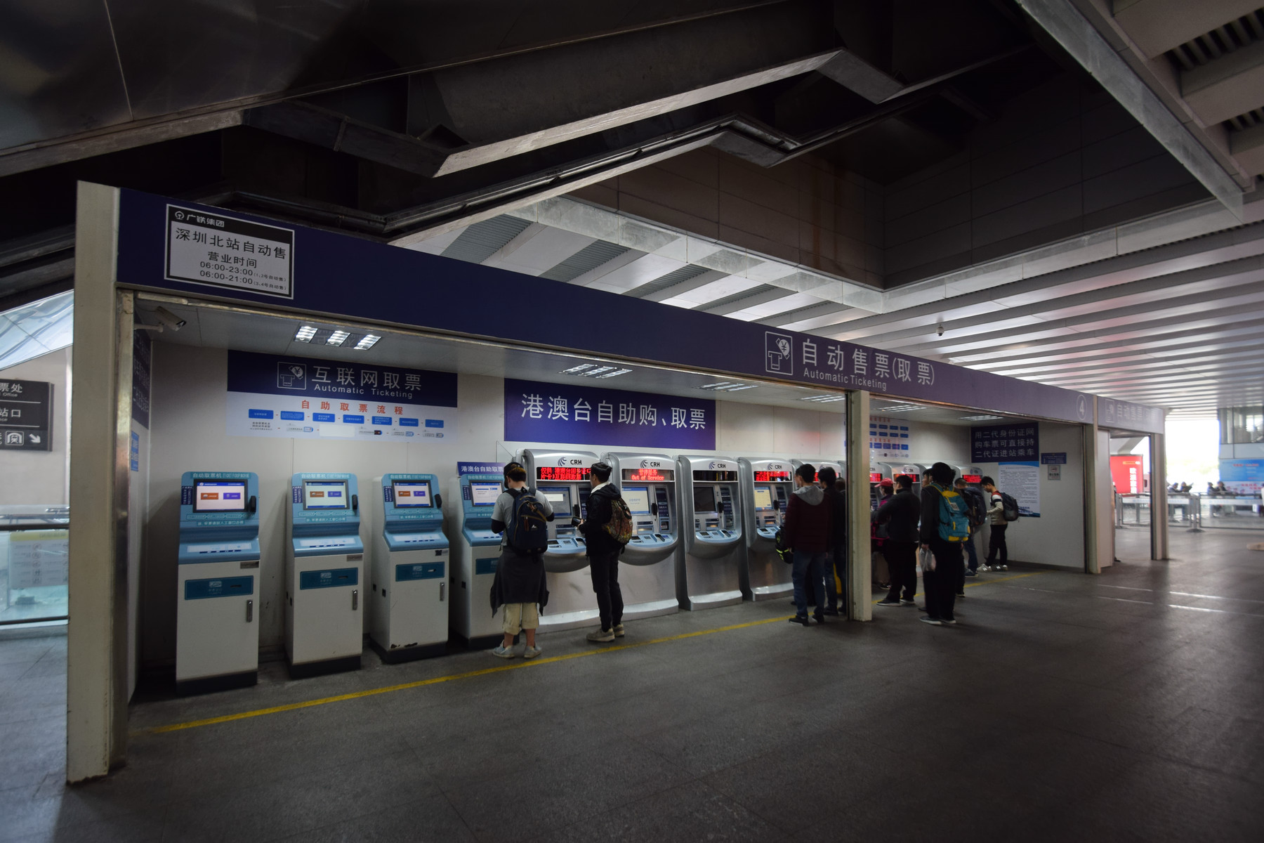 Ticket machines at Shenzhen Bei (North) Railway Station, some of them accept Mainland Travel Permit for Hong Kong, Macao & Taiwan Residents.